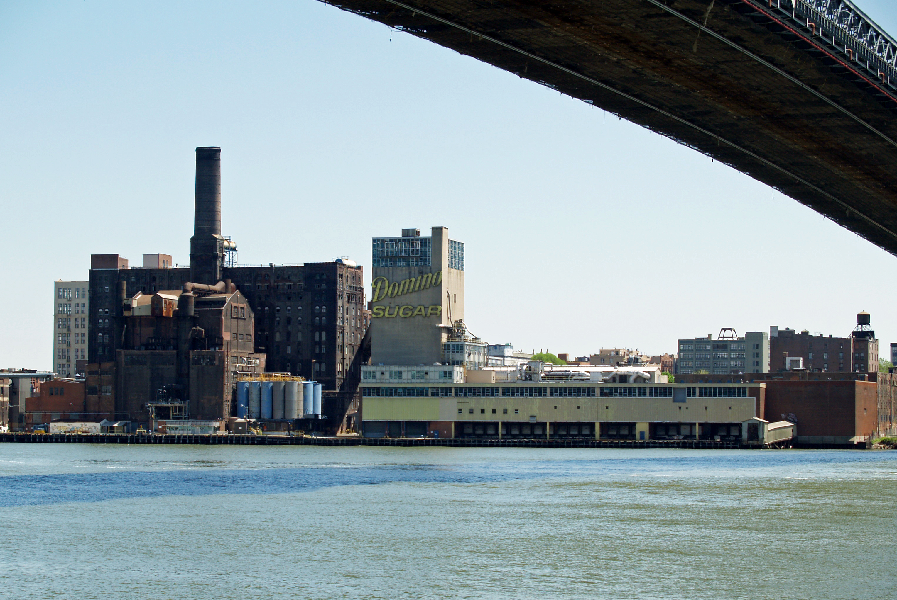 Domino Sugar Williamsburg New York by David Shankbone